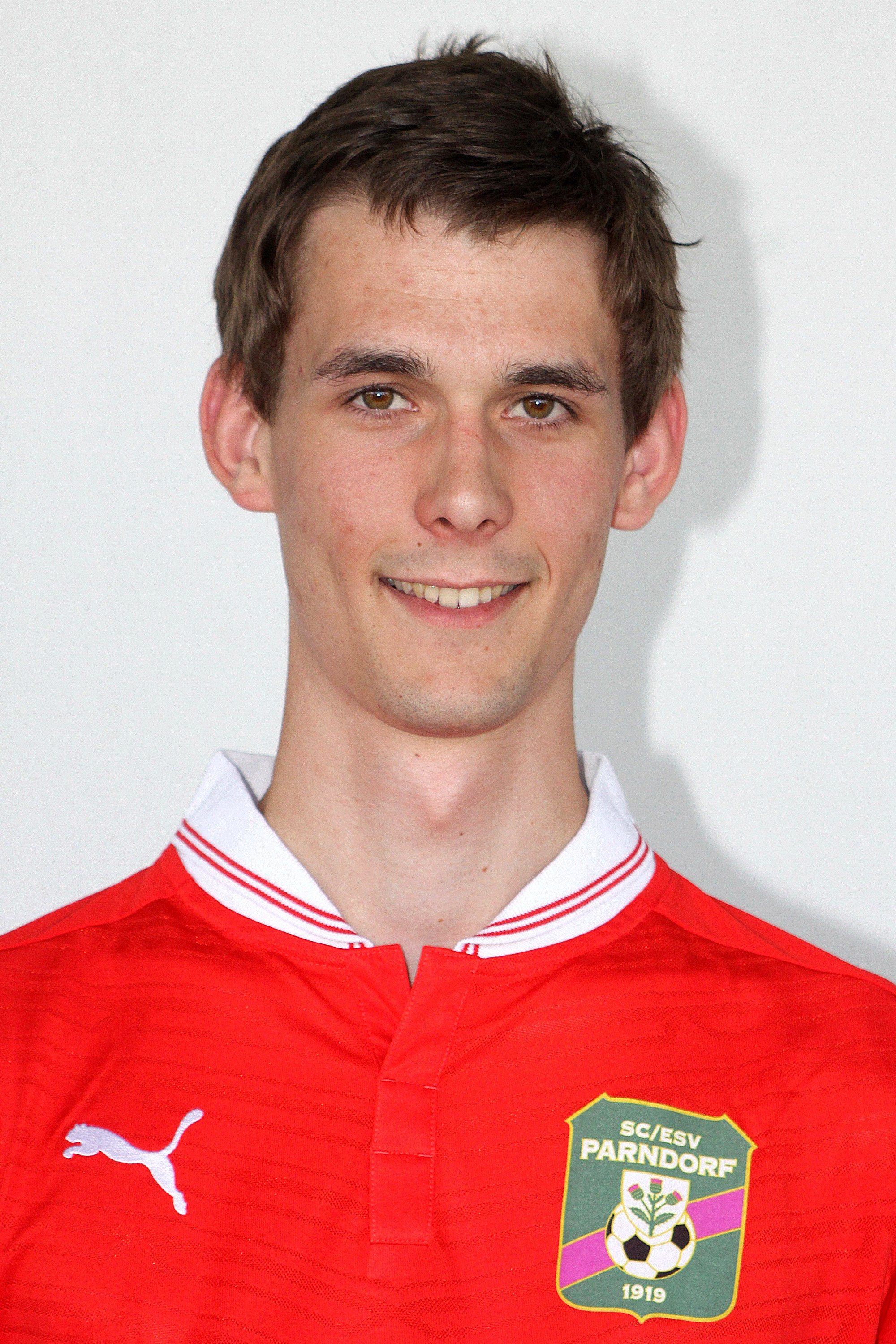 Teampresentation SC-ESV Parndorf at 2013-07-02 in Heidebodenstadion Parndorf. – The photo shows Felix Wendelin. { - OpenStreetMap(Info)